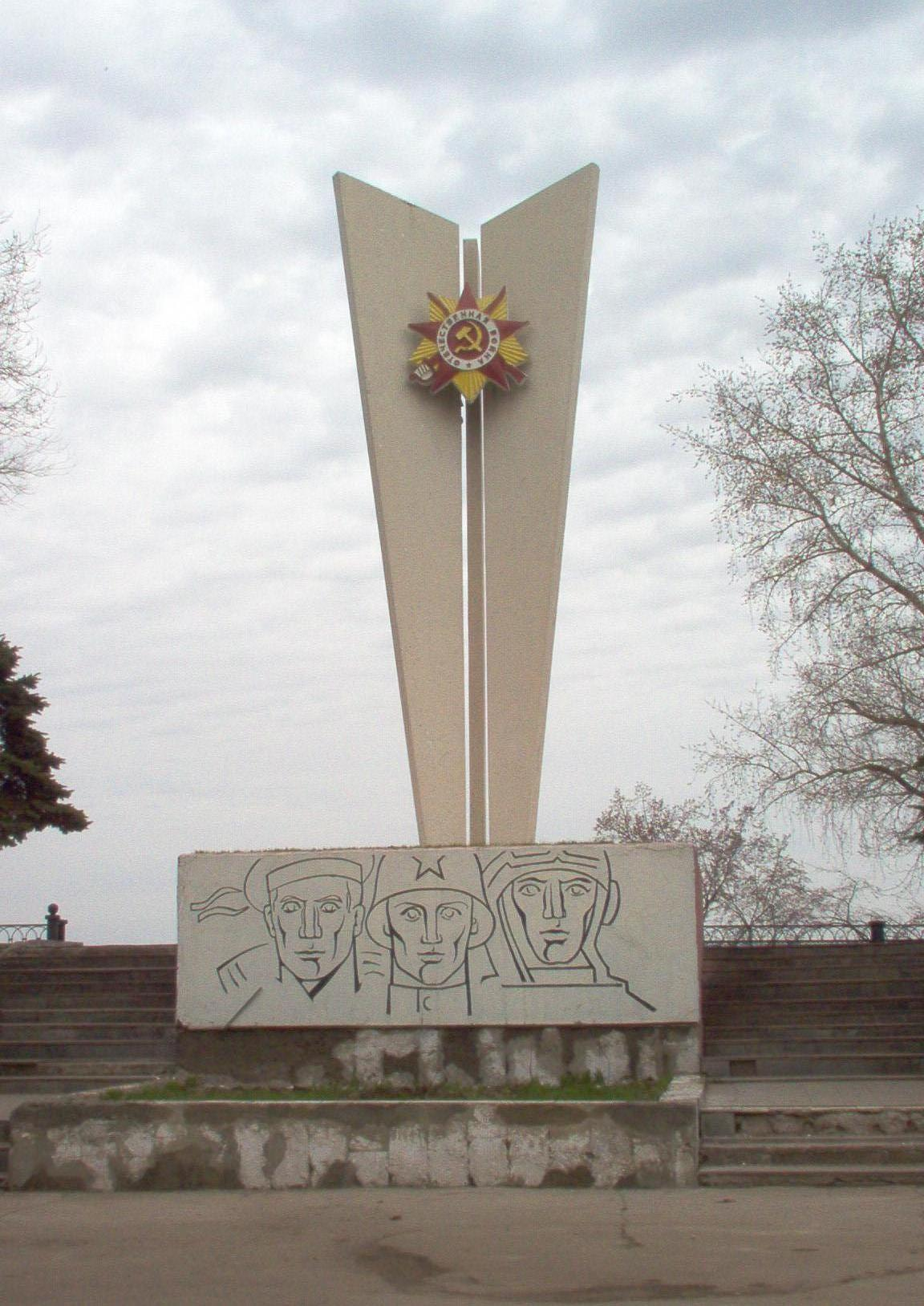 Memorial in Engels (Oblast Saratov, Russia)